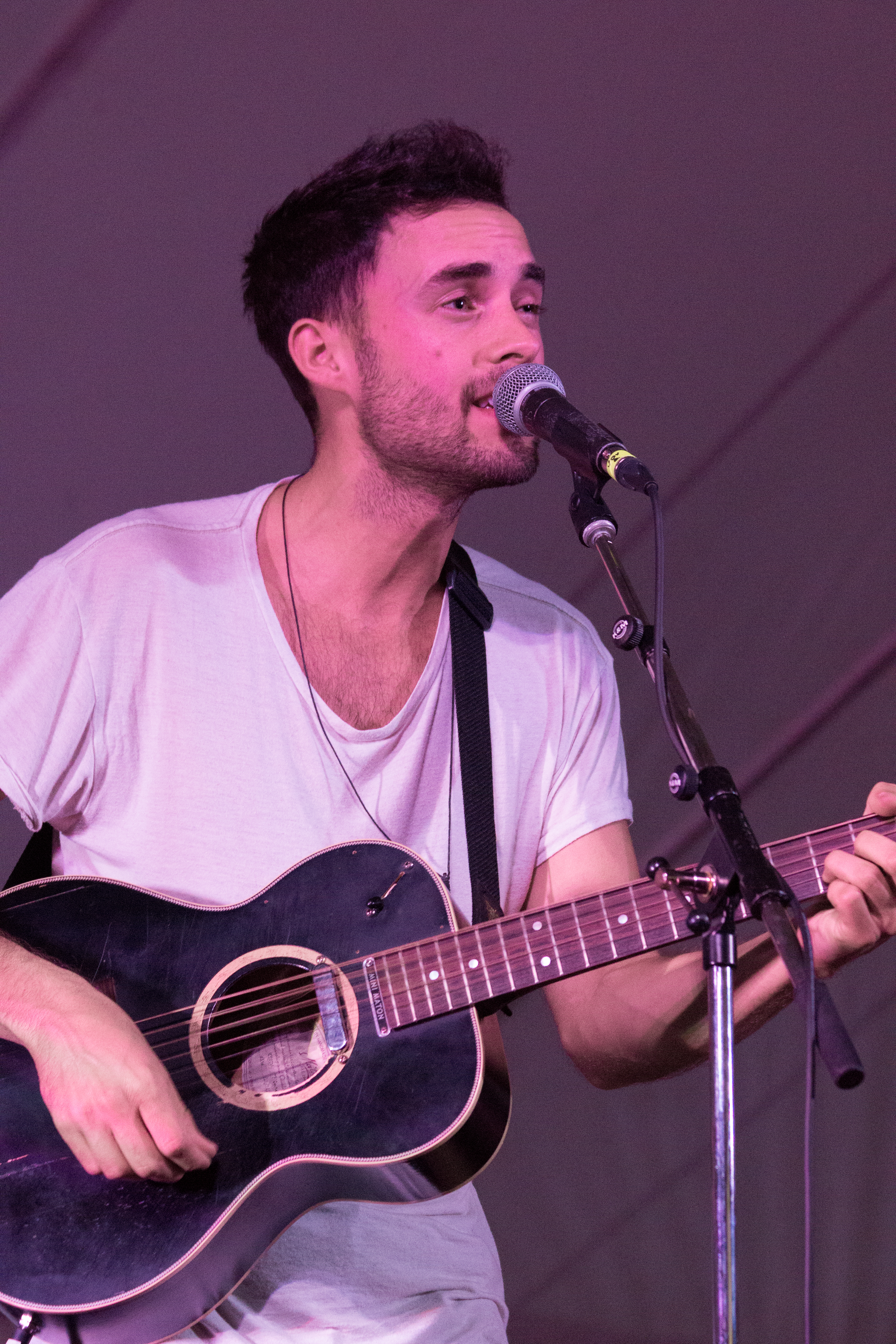 Tim Chaisson performing at the 2015 Hillside Festival in Guelph, ON